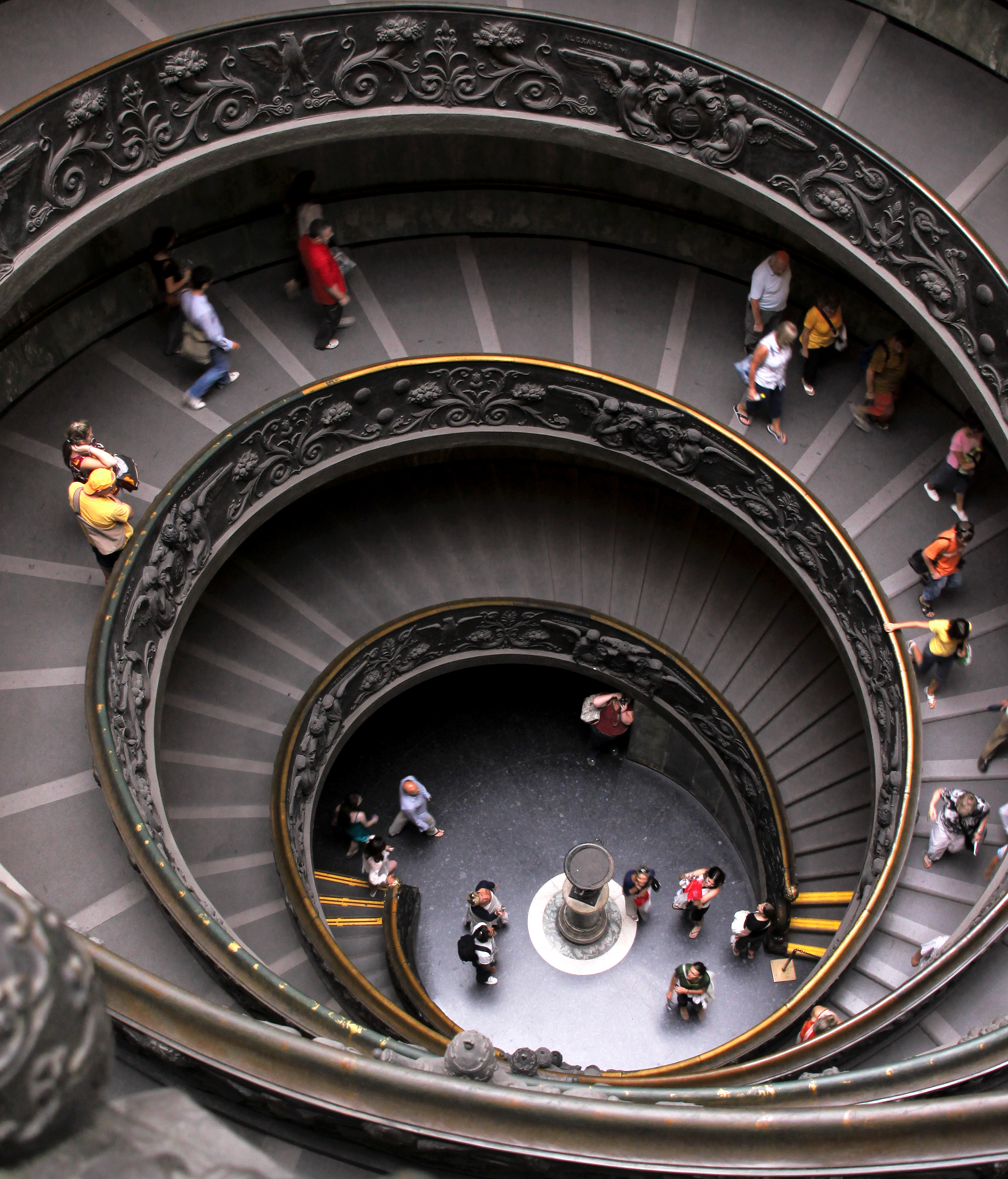 Spectacular spiral staircase in the Vatican Museums in Rome (Italy) designed by Giuseppe Momo in 1932.